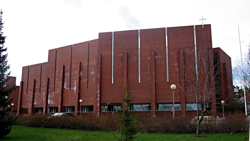 Olari Church in Espoo, Finland. Completed in 1981. Architects: Simo and Käpy Paavilainen.